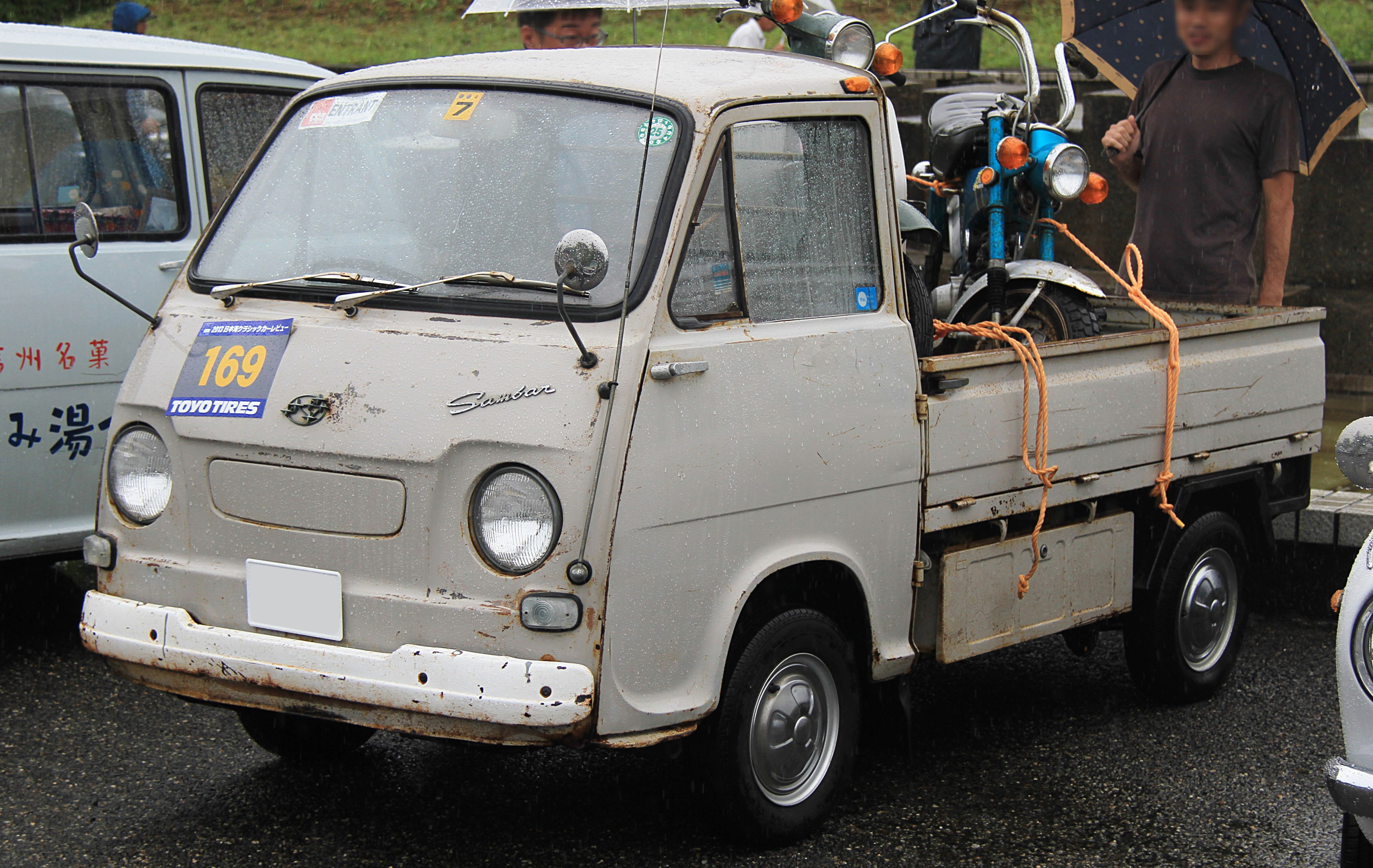 Subaru Sambar